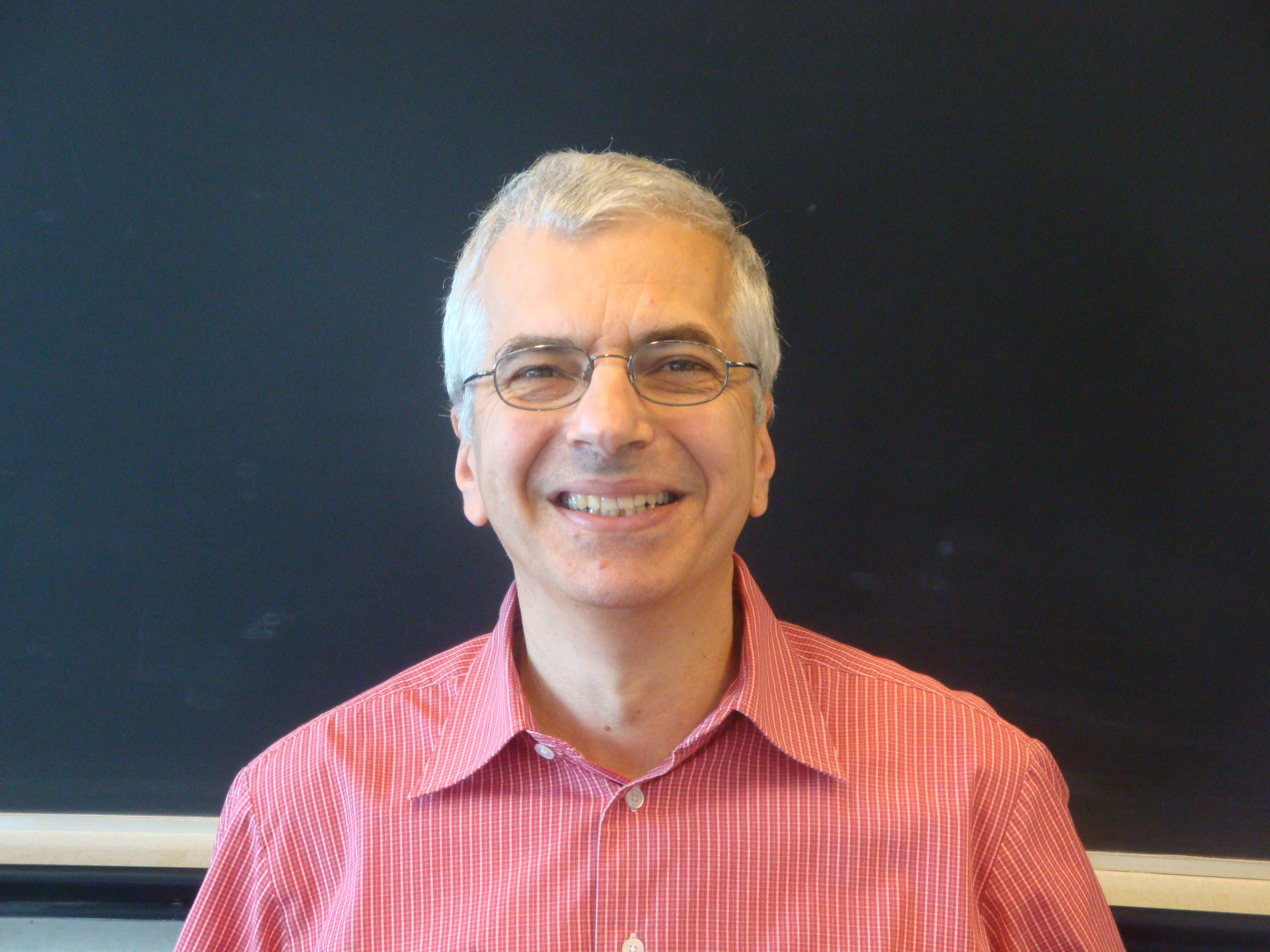 Picture of Bernard Dacorogna, 2012